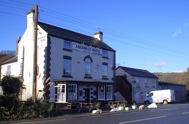 The Abermule Hotel In the quieter back road of this canal-side village, the pub is reputed to be one of the watering-holes of the composer Peter Warlock who once lived nearby at Cefnbryntalch, see 203602.